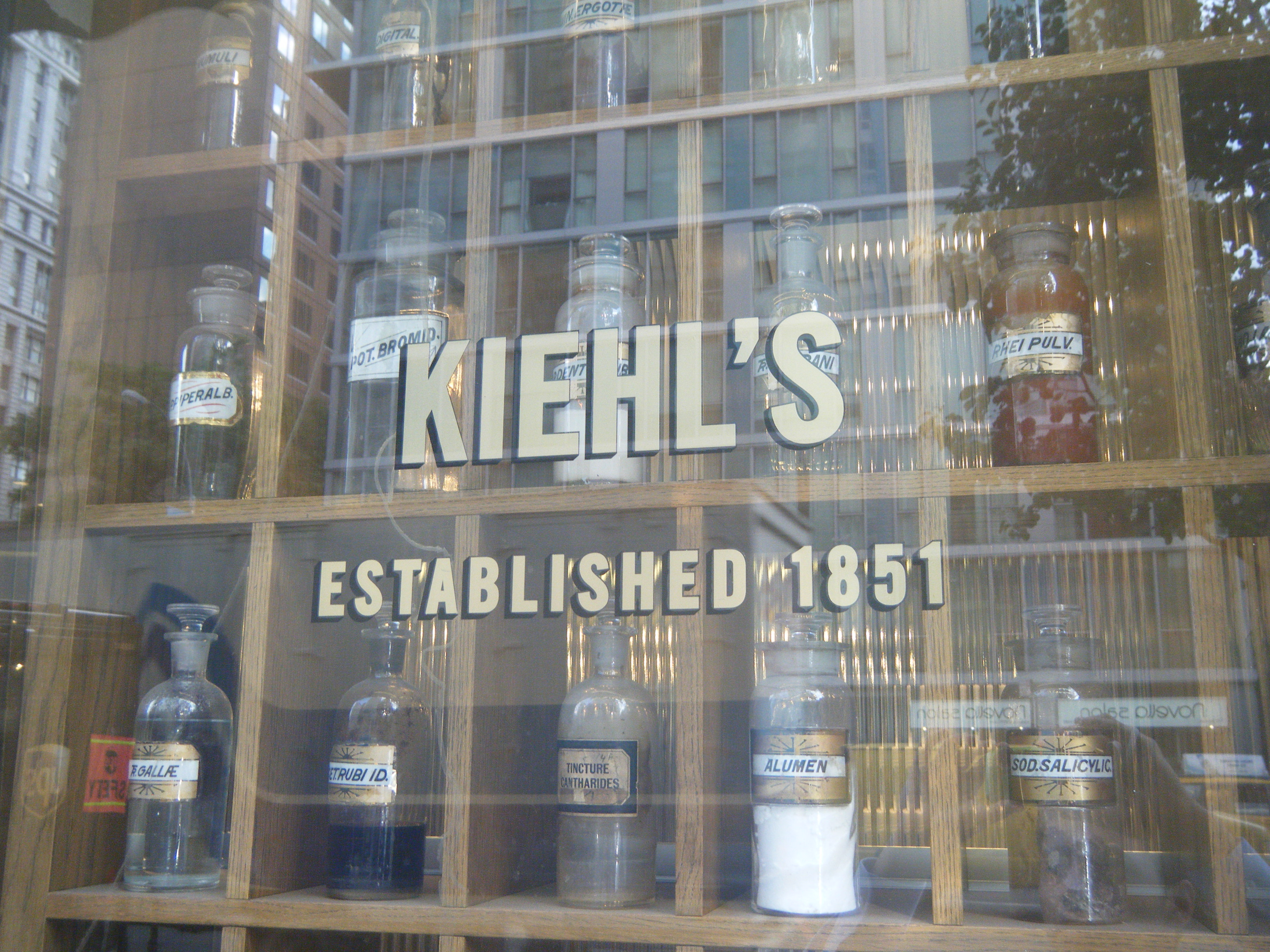 Vintage druggist relics displayed in the storefront window of the original Kiehl's pharmacy in the East Village of New York City. Located on 3rd Avenue at the corner of 3rd Avenue and 13th Street.